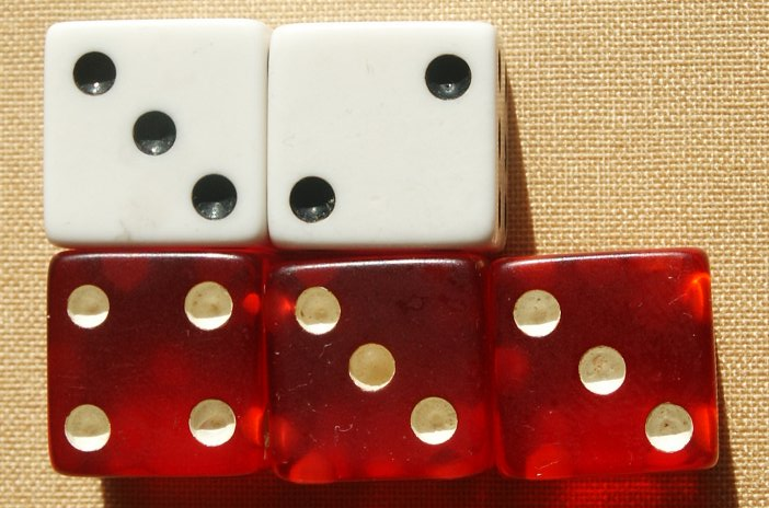 An illustration of how to compare the attacker (left) and defencer (right) dice in Risk.